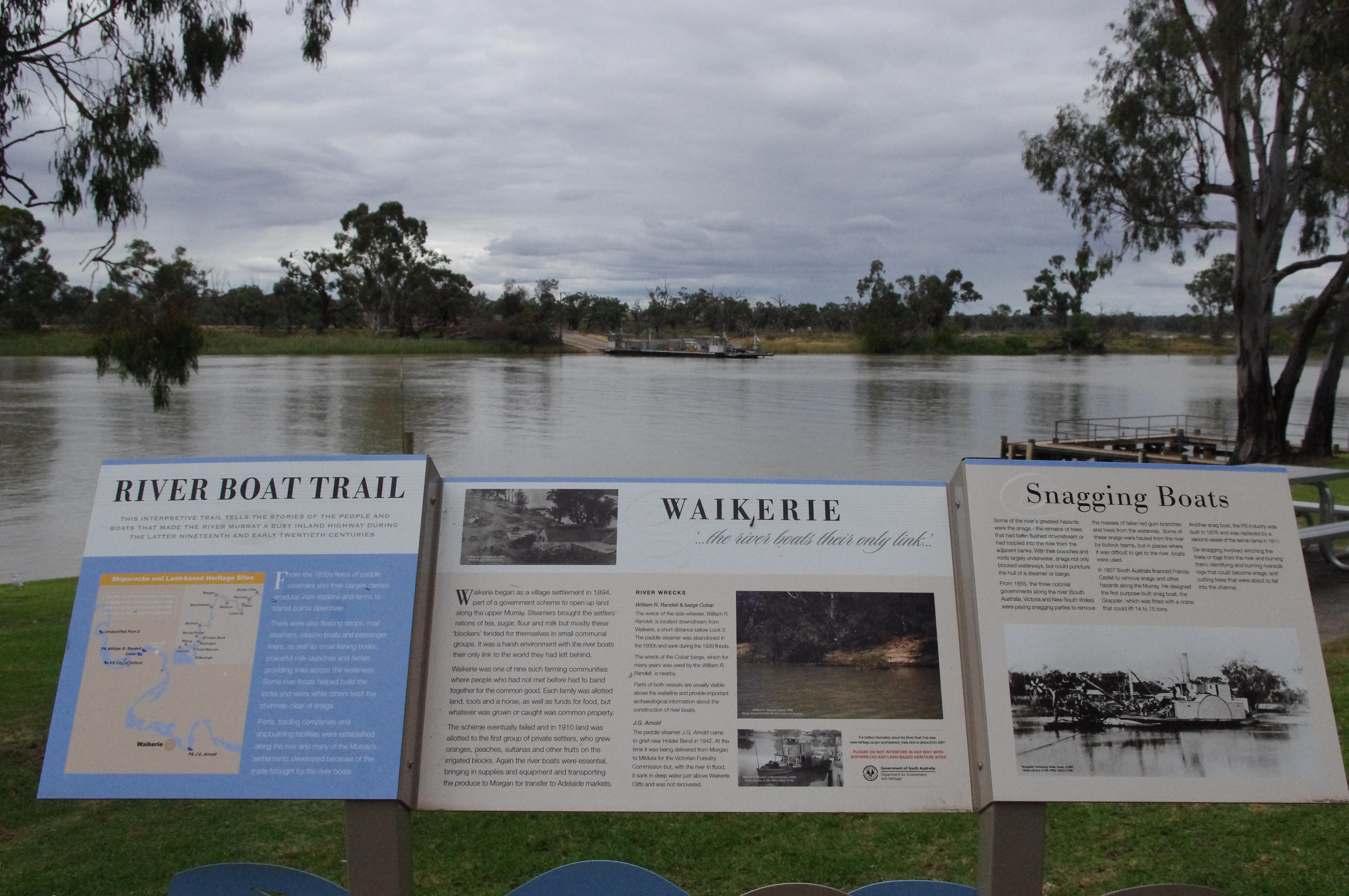 Looking towards the river where the ferry crosses